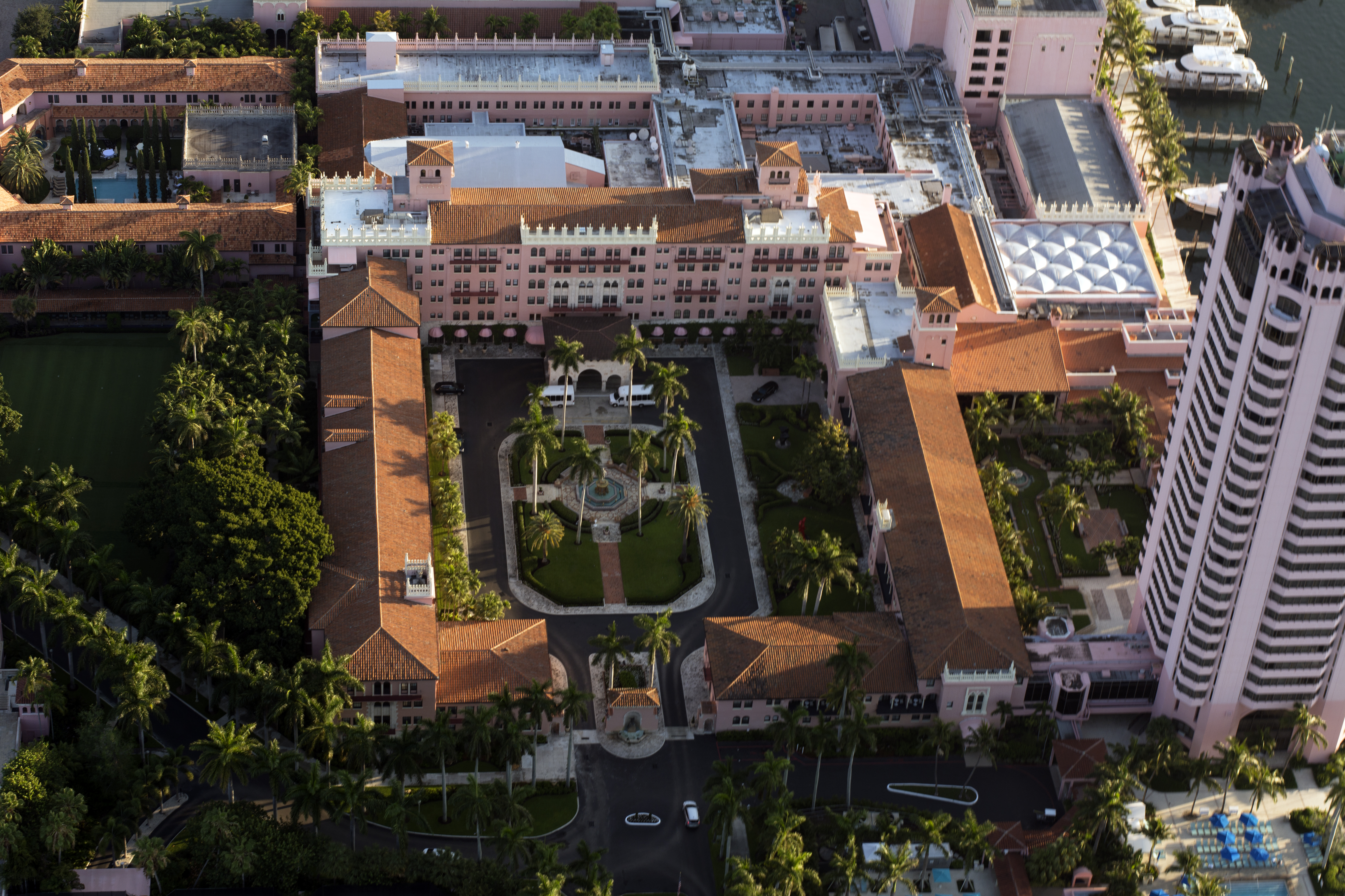 Boca Raton Resort main entrance photo D Ramey Logan